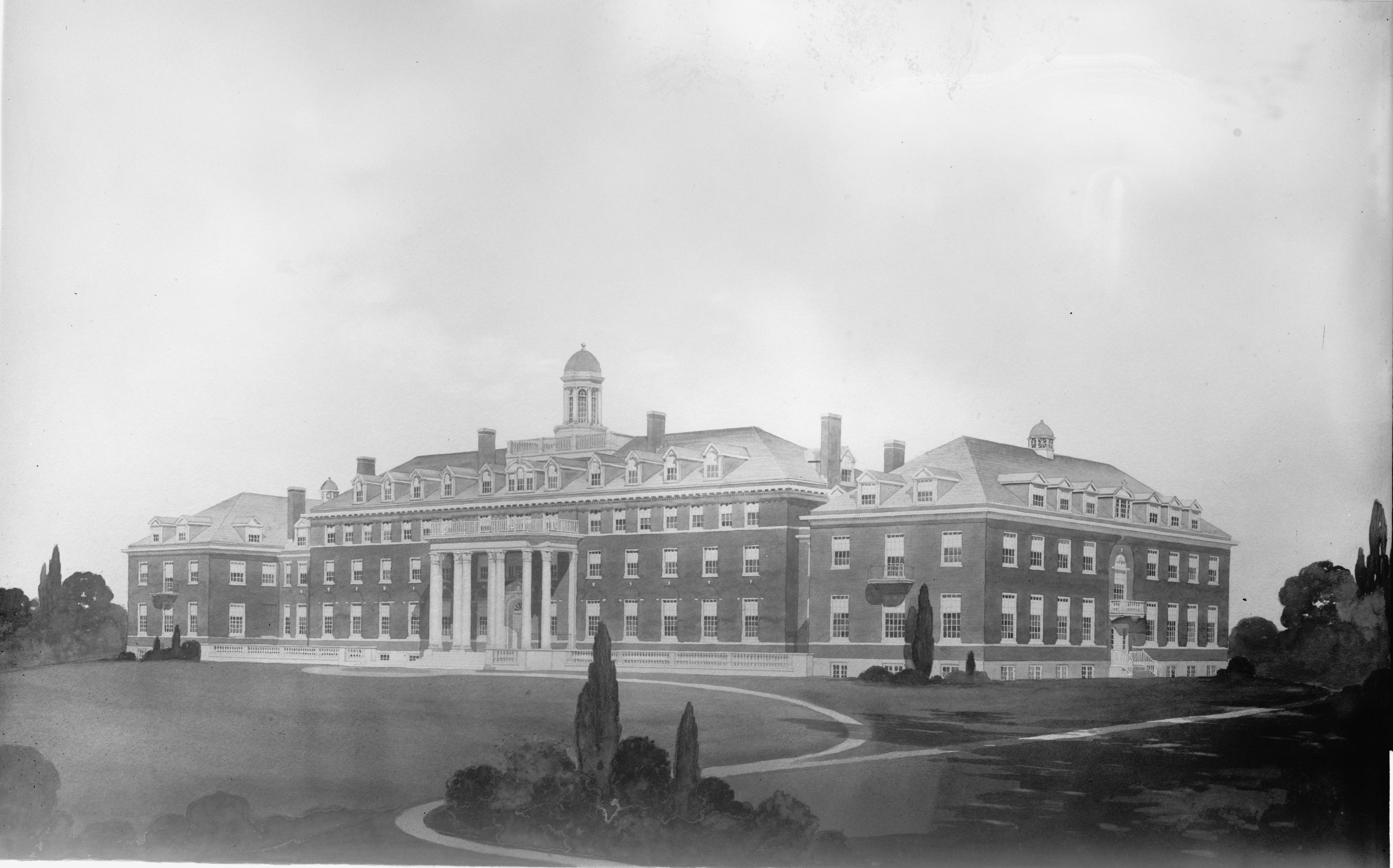 Boland Hall (built 1916-19), Georgetown Prep School, Rockville, Md. Abstract/medium: 1 negative : glass ; 8 x 10 in. or smaller